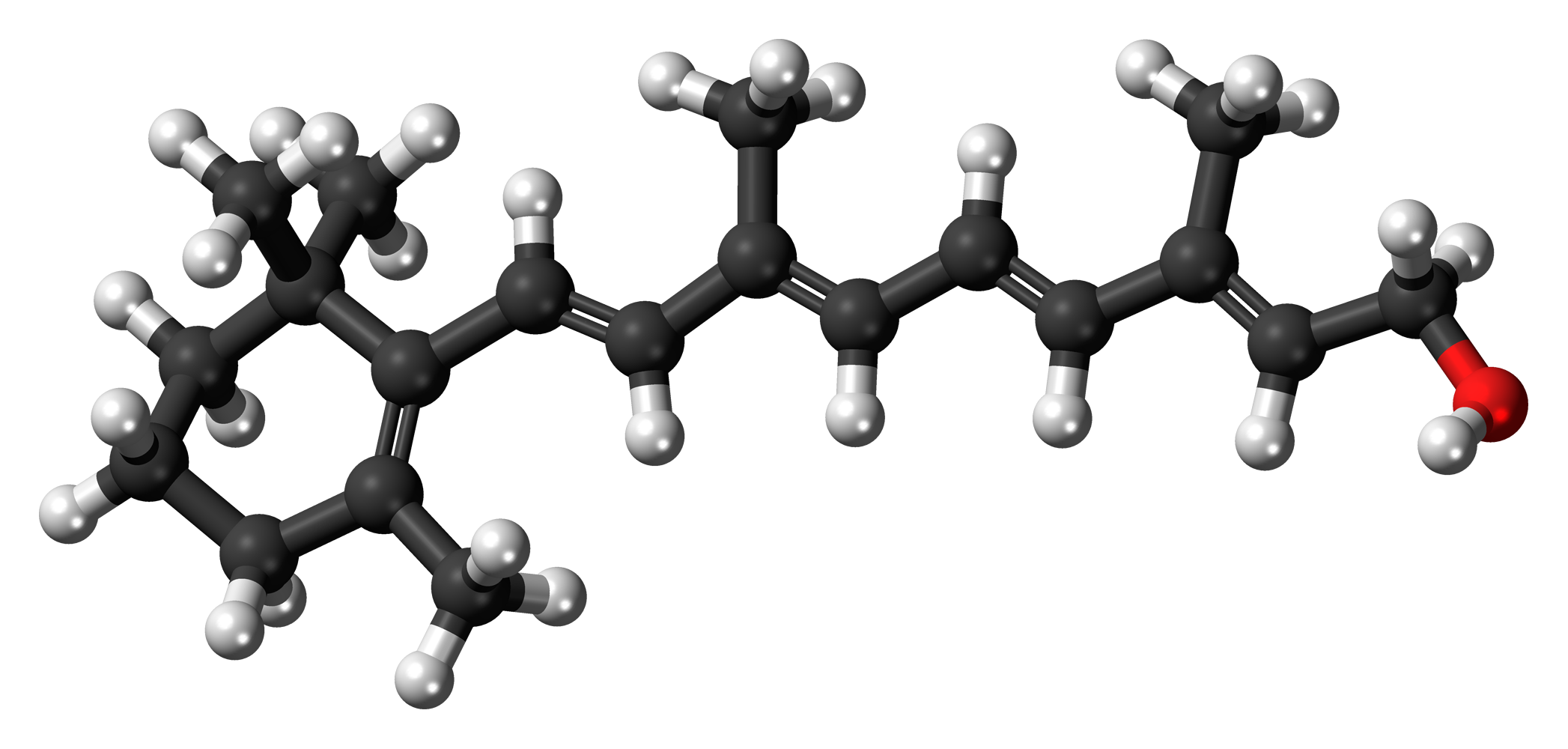 Ball-and-stick model of the retinol molecule, an alcohol that is one of the main forms of vitamin A. Colour code: Carbon, C: black Hydrogen, H: white Oxygen, O: red